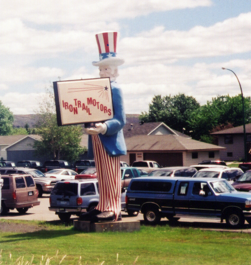 Uncle Sam. Virginia, Minnesota